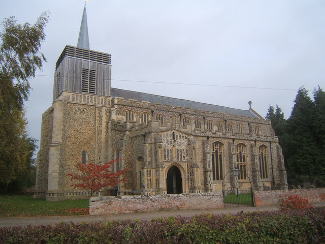 The church of St Mary Magdalene, Bildeston, is well away from the village The previous tower collapsed in 1975.